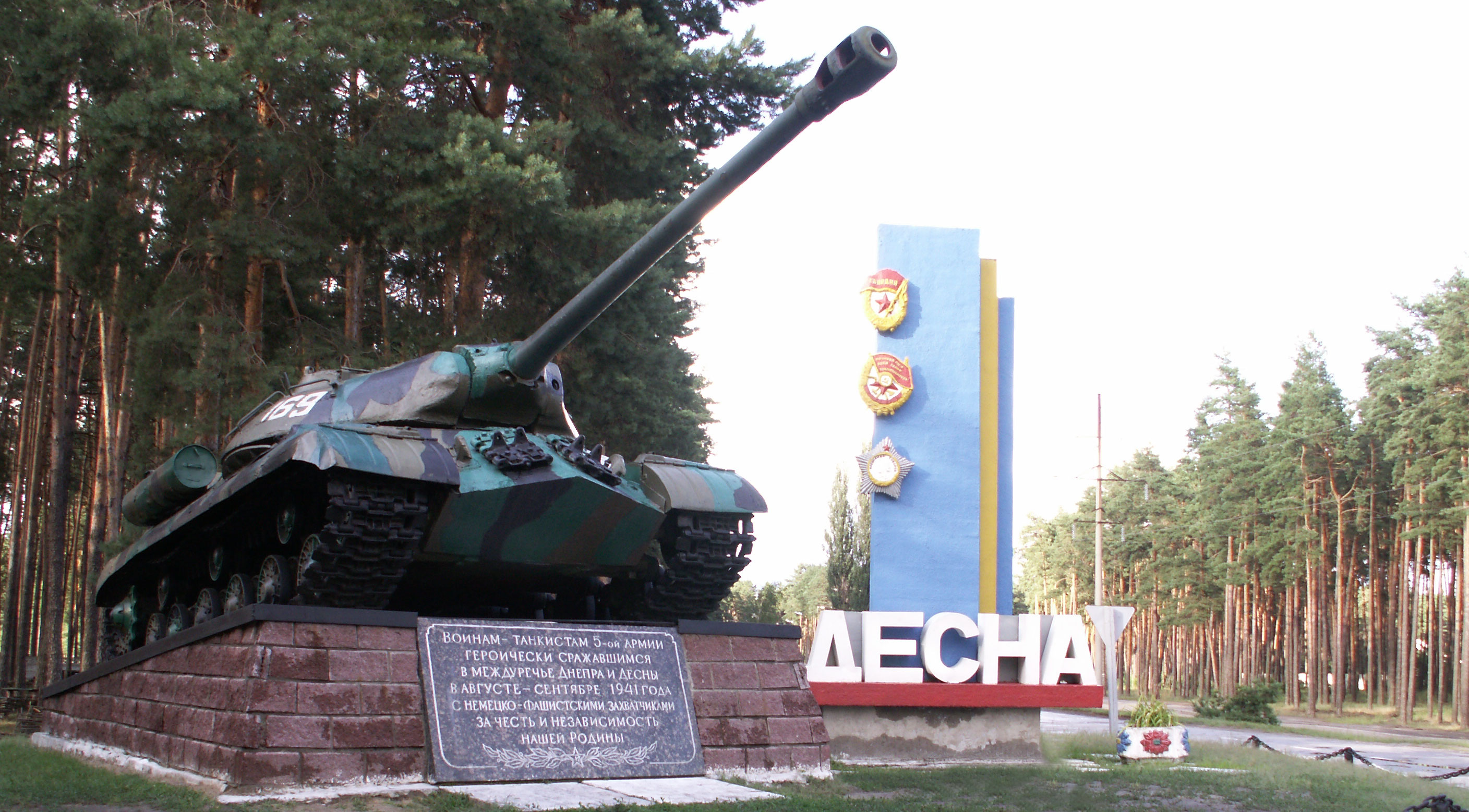 Tank and sign on the entrance to Desna, Chernihiv Oblast, Ukraine